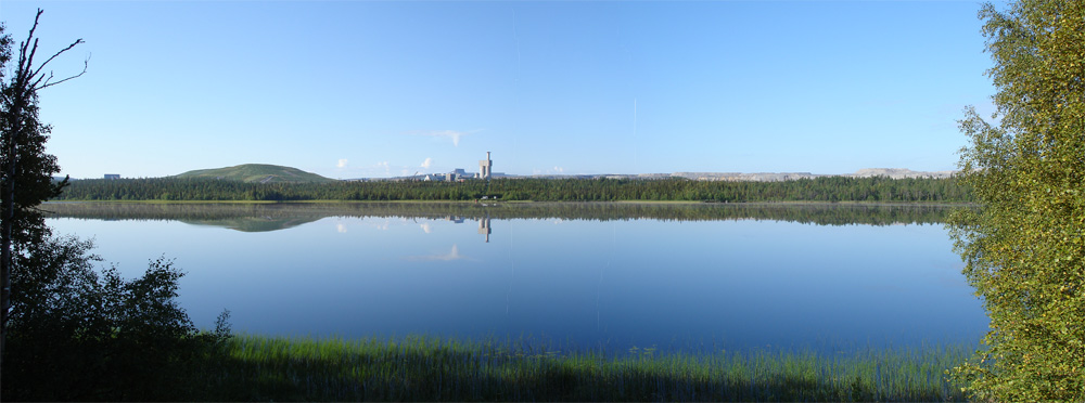 Panorama of Aitik copper mine from the northeast, with lake Sakajärvi in the foreground.